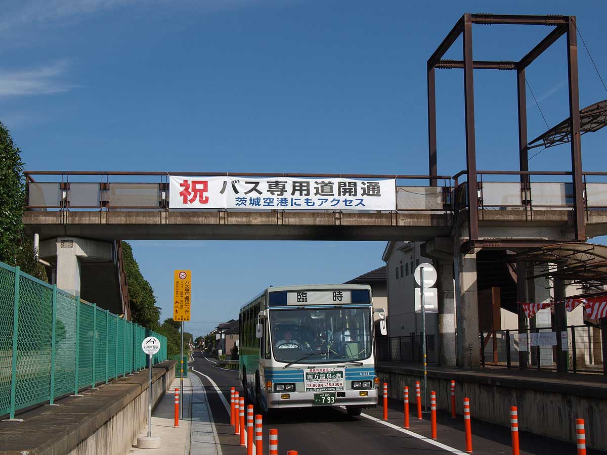 Kantetsu green bus at Ishioka minamidai station. This is replacement bus of Kashima railway.